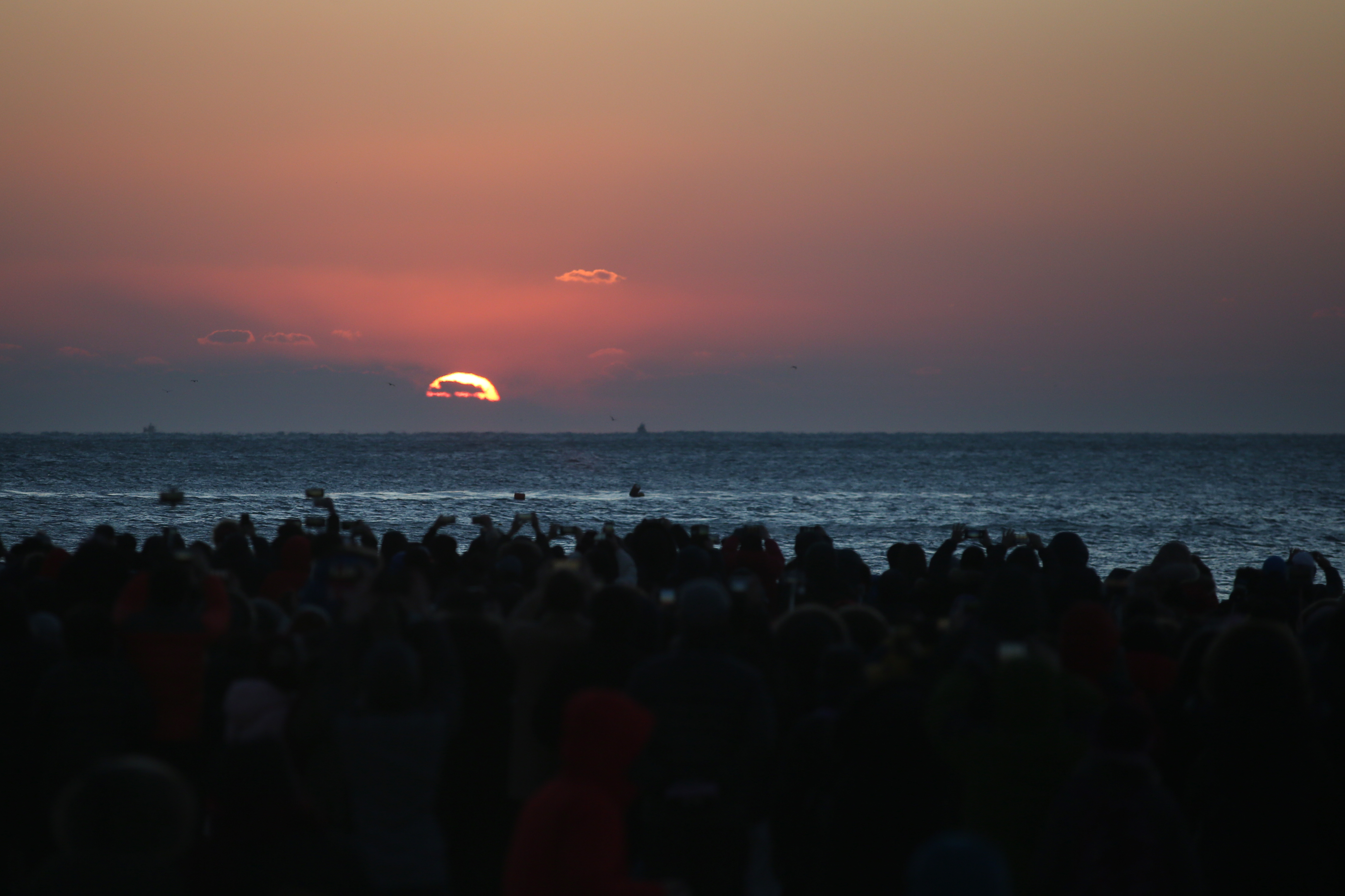 To welcome in the New Year, Busan is hosting its annual New Year's Festival, a popular winter event, celebrated by both the citizens of Busan as well as tourists visiting the city. The Busan New Year Festival consists of a bell-tolling ceremony and New Year's sunrise event. The festival will start at 11 p.m. on New Year's Eve, and continue through midnight to the morning of New Year's Day at Yongdusan Park and Haeundae Beach, respectively.